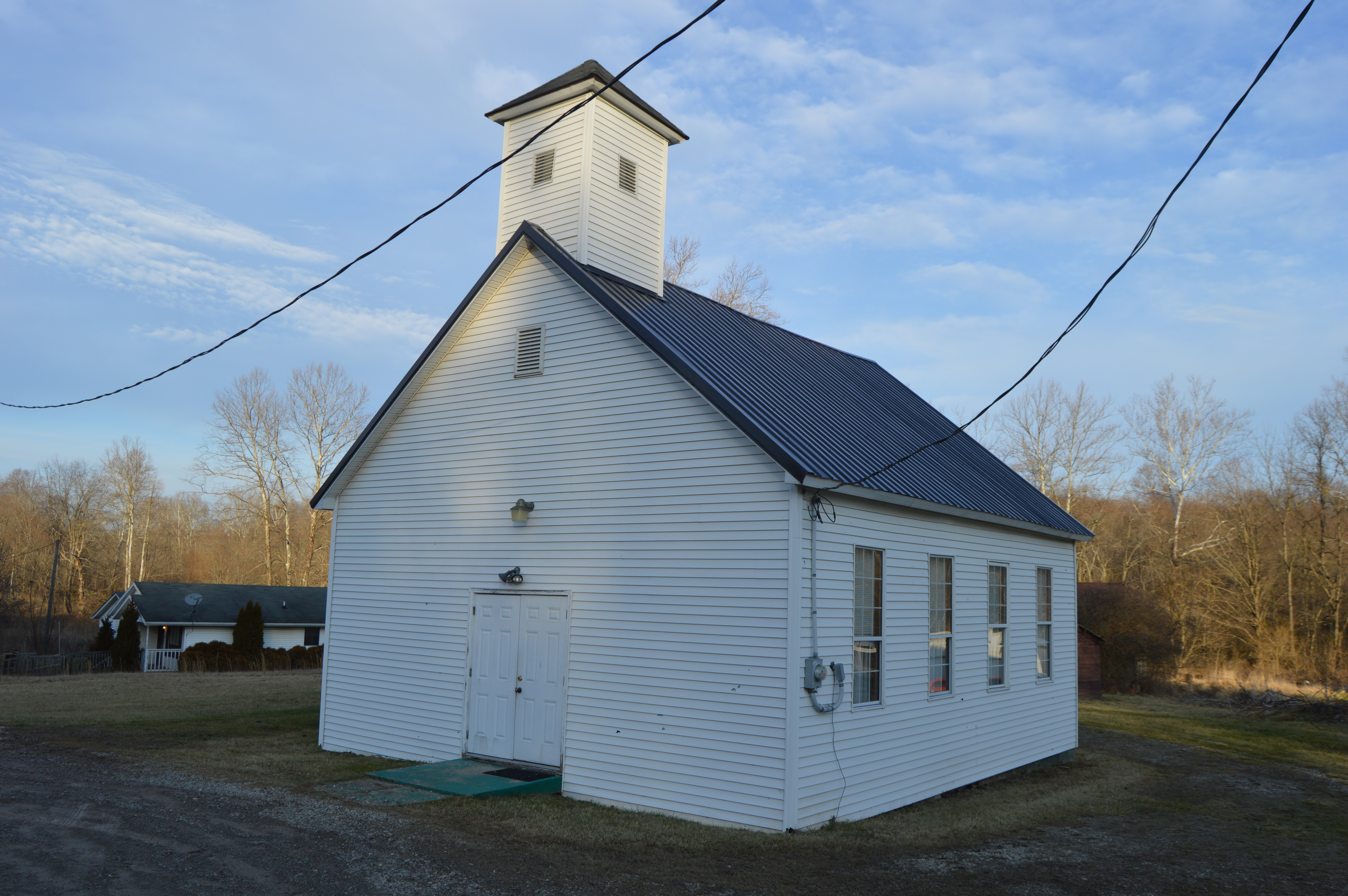 Front and southern side of the Columbia Chapel, located on the eastern side of State Route 93 between Jackson and Coalton in far northern Lick Township, Jackson County, Ohio, United States.